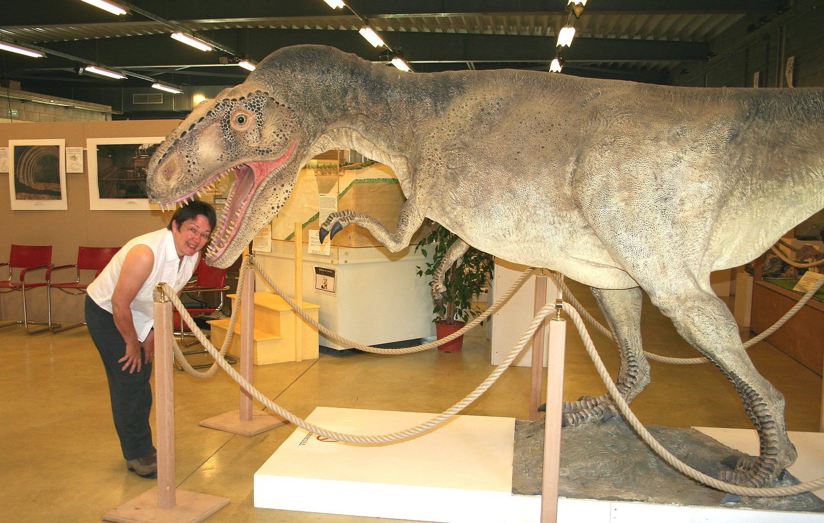 Obourg (Belgium), hall museum of the geological garden.